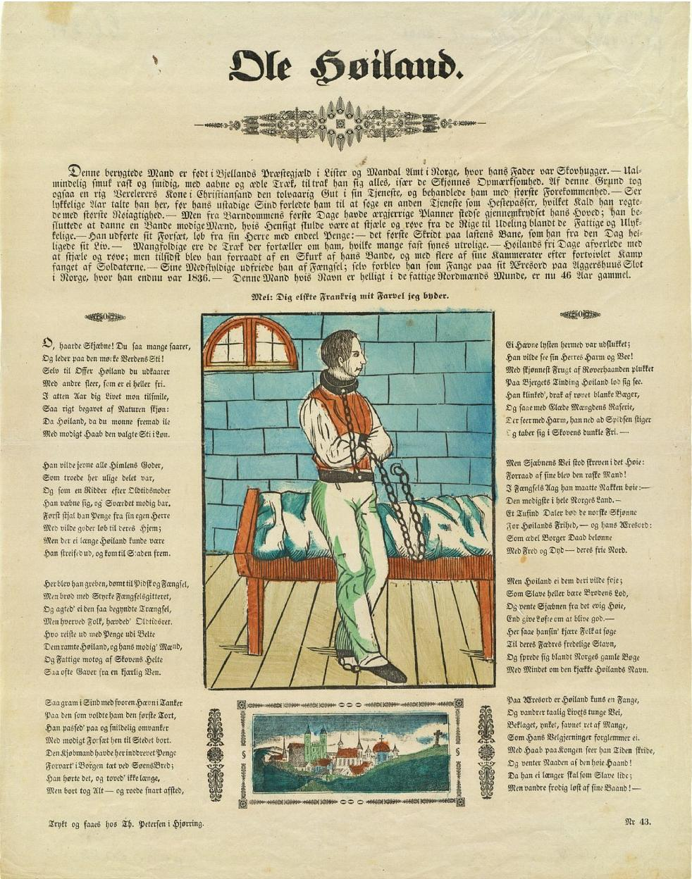 Ole Høiland, Norwegian criminal who lived 1797-1848.